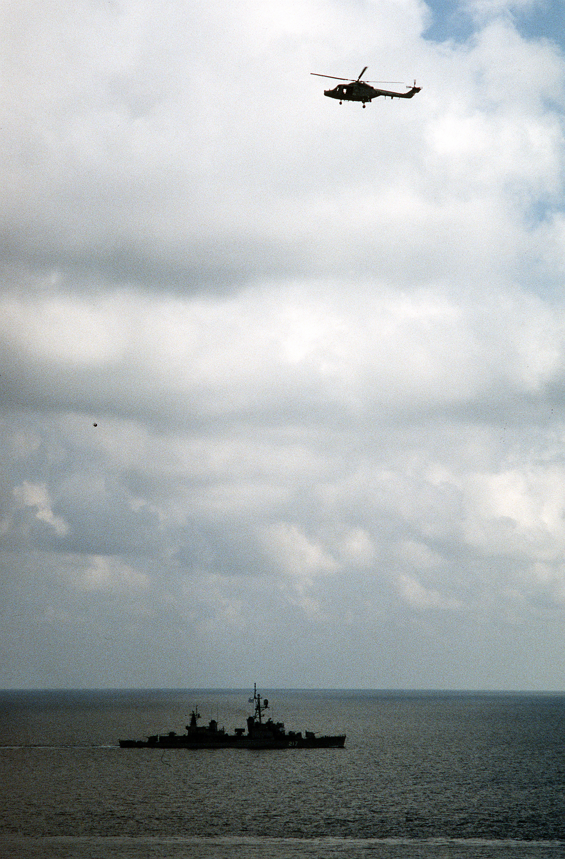 A Lynx helicopter of the Royal Navy flies over the Greek destroyer HS Kriezis (DD-217) as the elements of Naval On-call Forces Mediterranean, Task Force 432 participate in exercise Deterrent Force 2/90, a part of Operation Desert Shield.